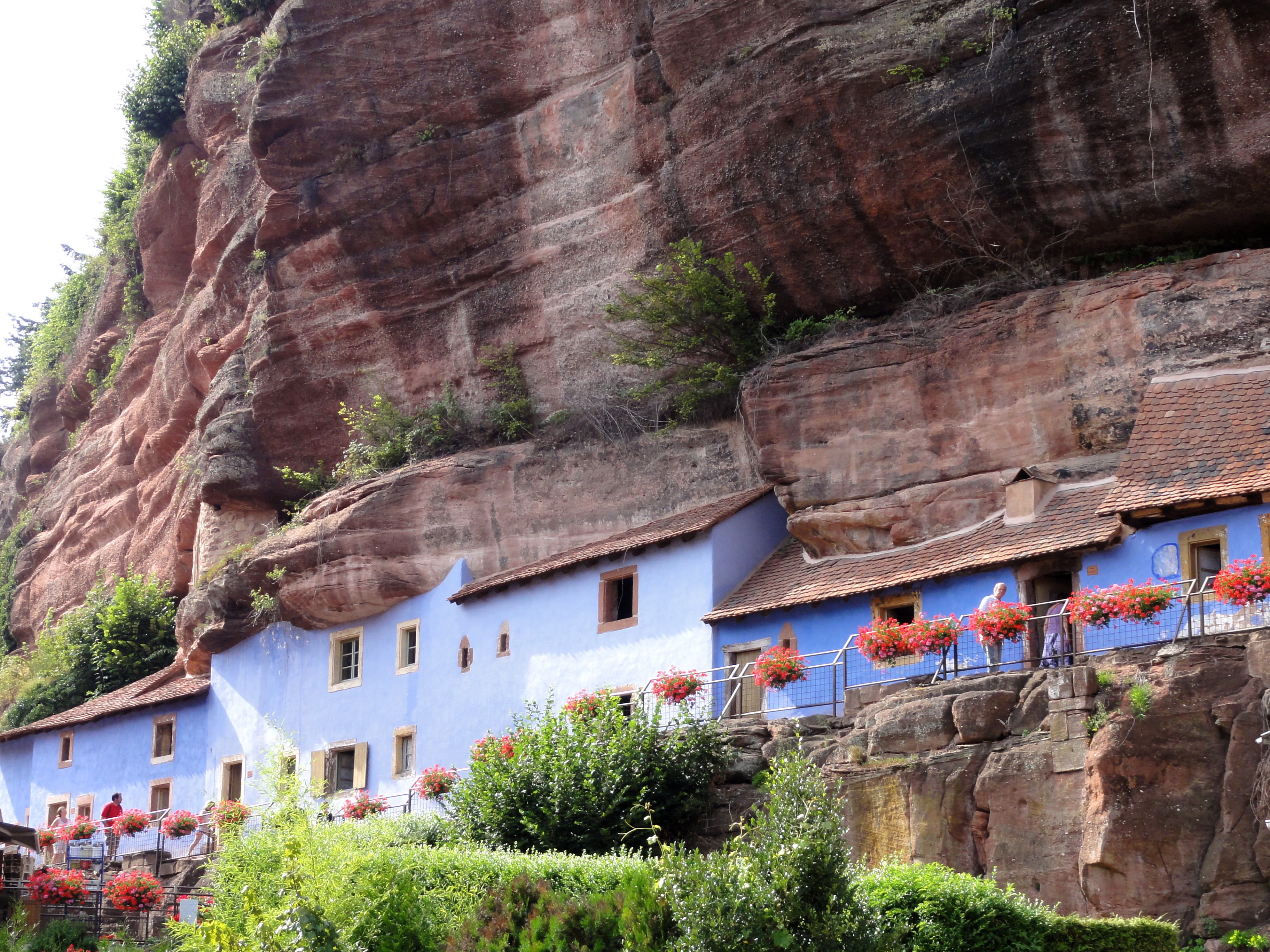 Alsace, Bas-Rhin, Eschbourg, Maisons troglodytiques de Graufthal: It is indexed in the Base Mérimée, a database of architectural heritage maintained by the French Ministry of Culture, under the references PA00084709 and IA67006389.